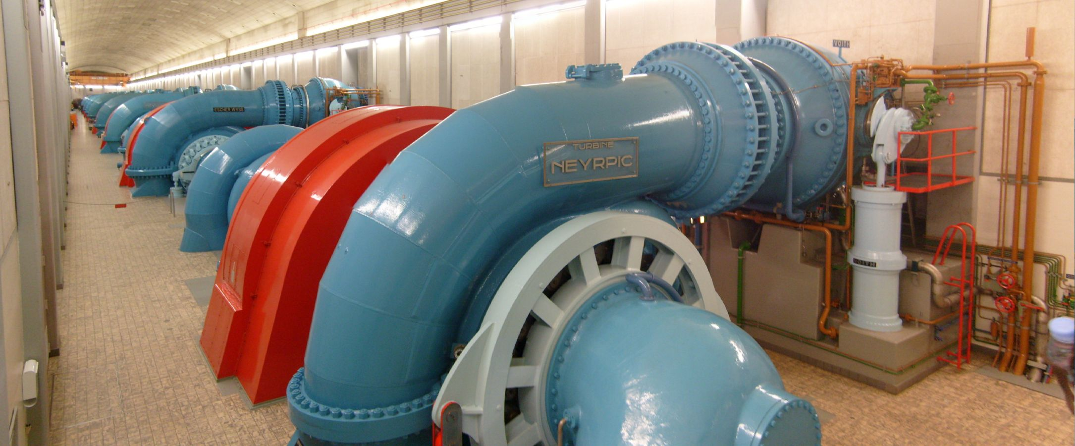 Main cavern of the Our power plant SEO (Société électrique de l'Our) between Vianden and Stolzembourg, Luxembourg.